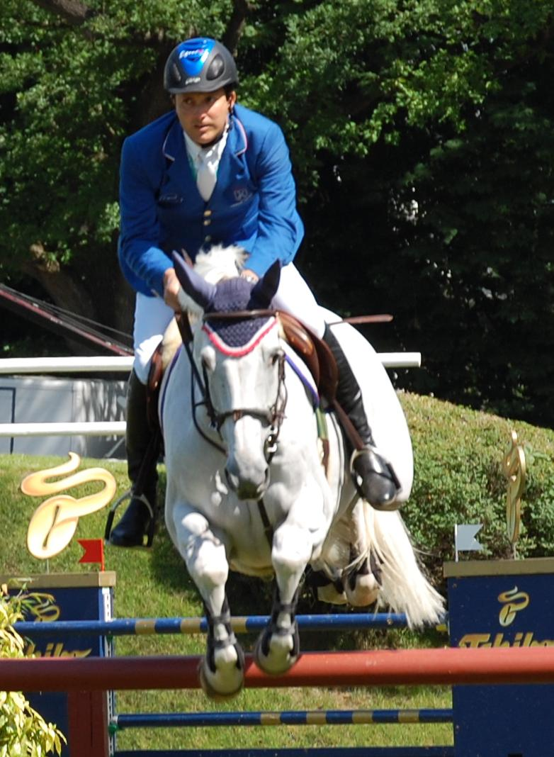 Brazilian rider Bernardo Alves with Quentin, first qualifier to the German show jumping derby in Hamburg 2011 (CSI 3*)